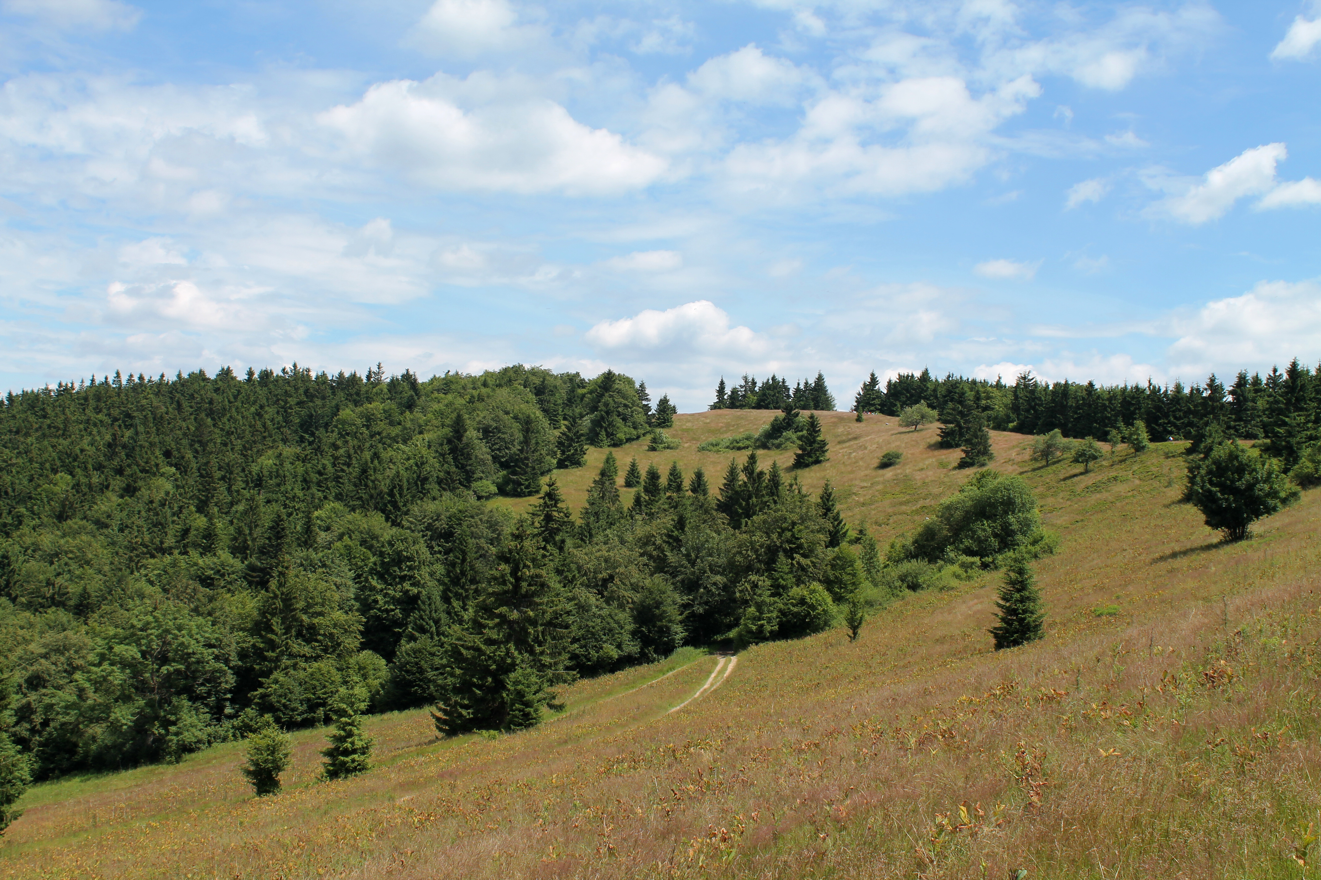 Veľký Javorník from Gežov saddle, Makov, Čadca District, Slovakia